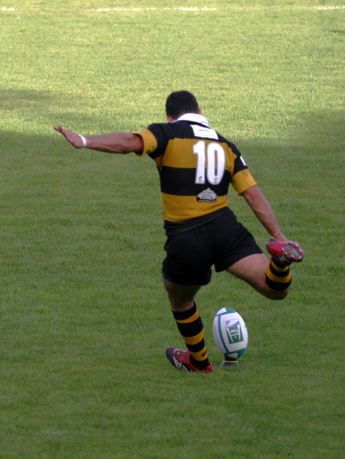 Jeremy Staunton kicks a penalty 1 London Wasps/USAP rugby union game in Heineken Cup